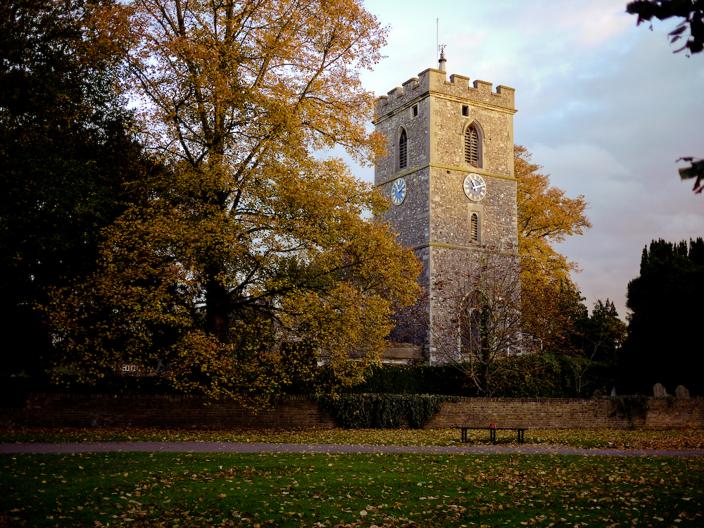 Parish church of St Mary the Virgin, Hayes, Middlesex, seen from the northeast